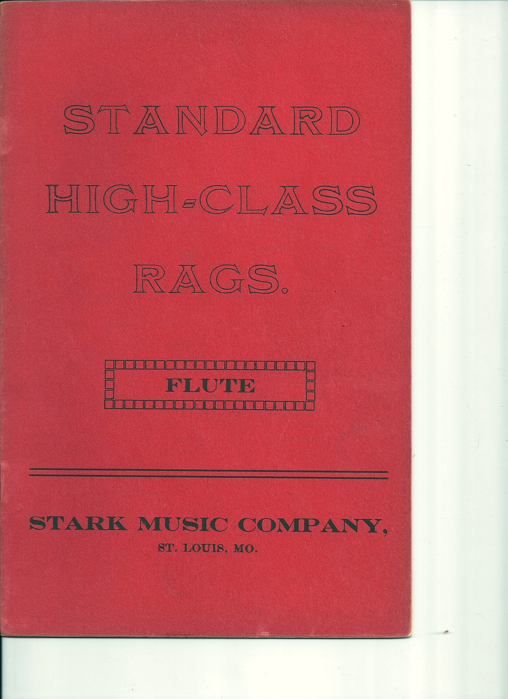 Photo of cover page of musical manuscript